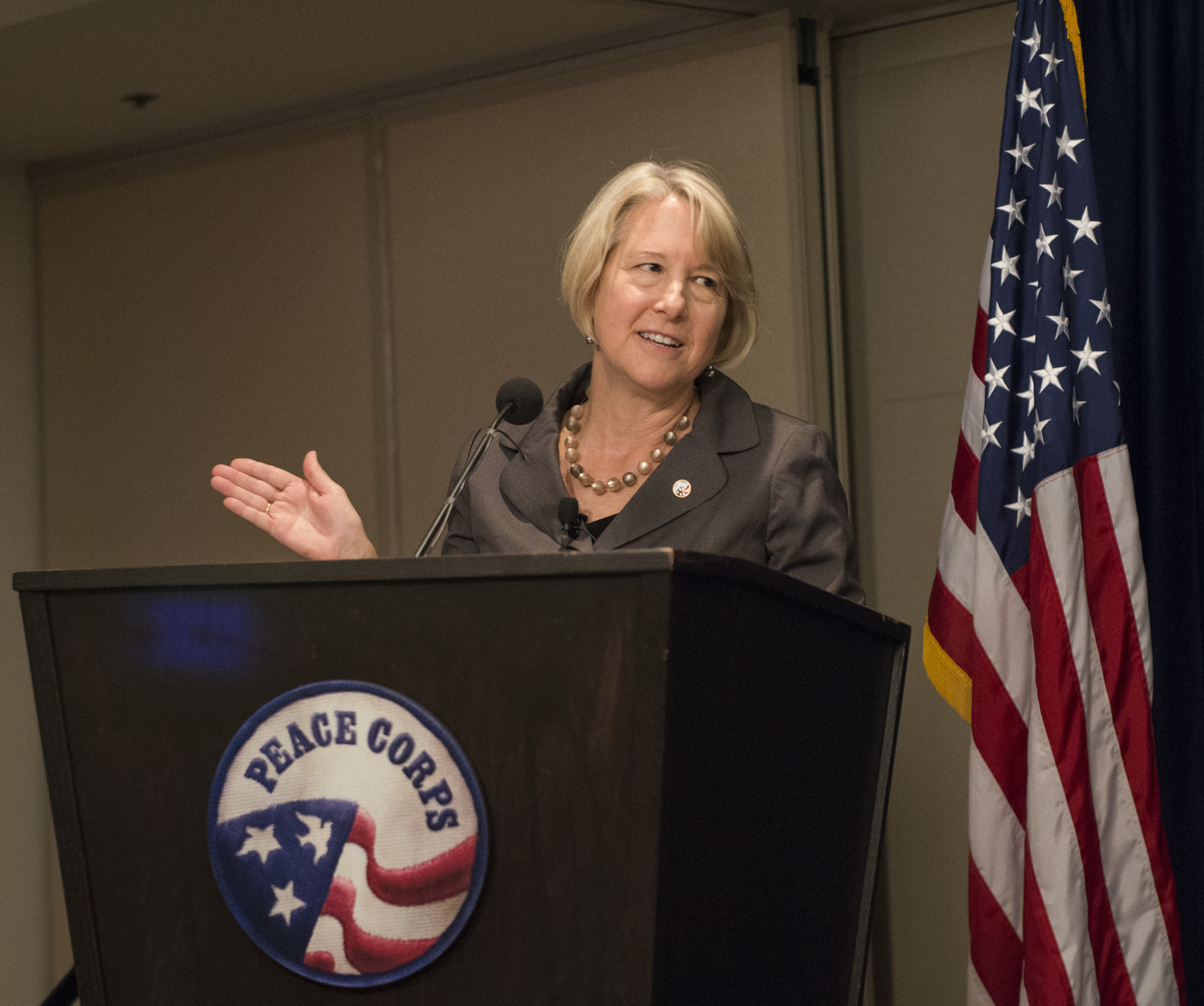 Director Carrie Hessler-Radelet at the formal swearing-in ceremony of the 19th Director of Peace Corps